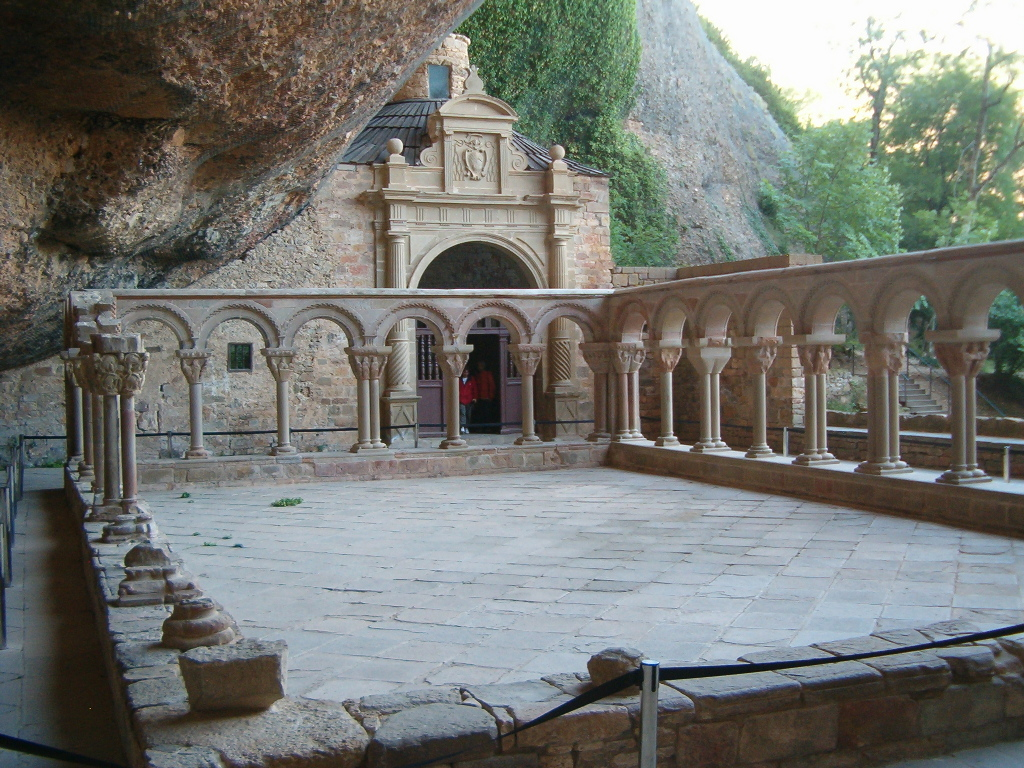 The monastery of San Juan de la Peña is located at the south-west of Jaca, in Huesca, Spain. It was one of the most important monasteries in Aragon in the Middle Ages. Its two-level church is partially carved in the stone of the great cliff that overhangs the foundation. San Juan de la Peña means Saint John of the Rock. Legend said that the chalice of the Last Supper (Holy Grail) was sent to the monastery for protection and prevention from being captured by the Muslim invaders of the Iberian Peninsula.